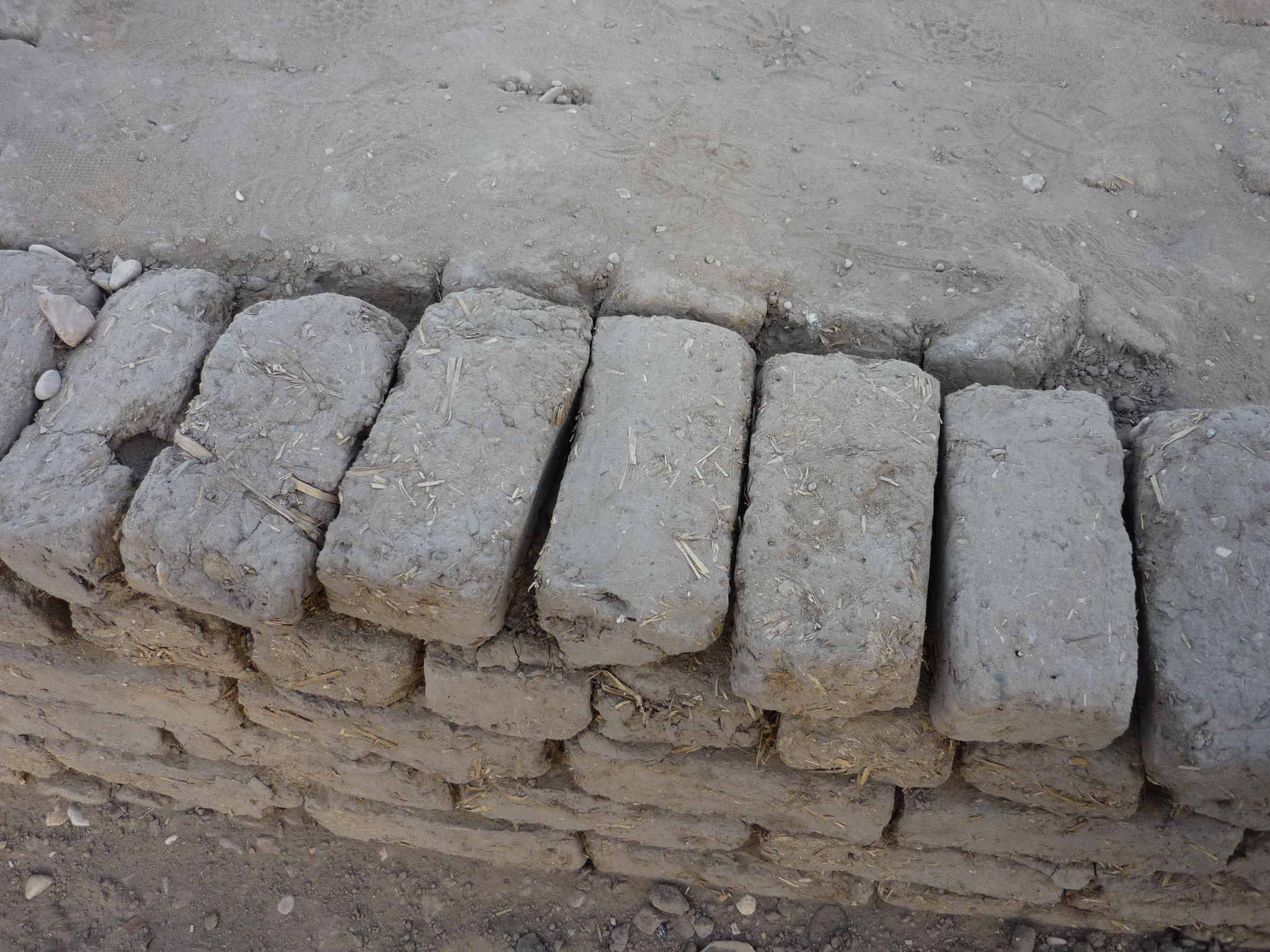 Nile silt mudbricks from northwest wall in Nectanebo courtyard, Luxor Temple, Egypt